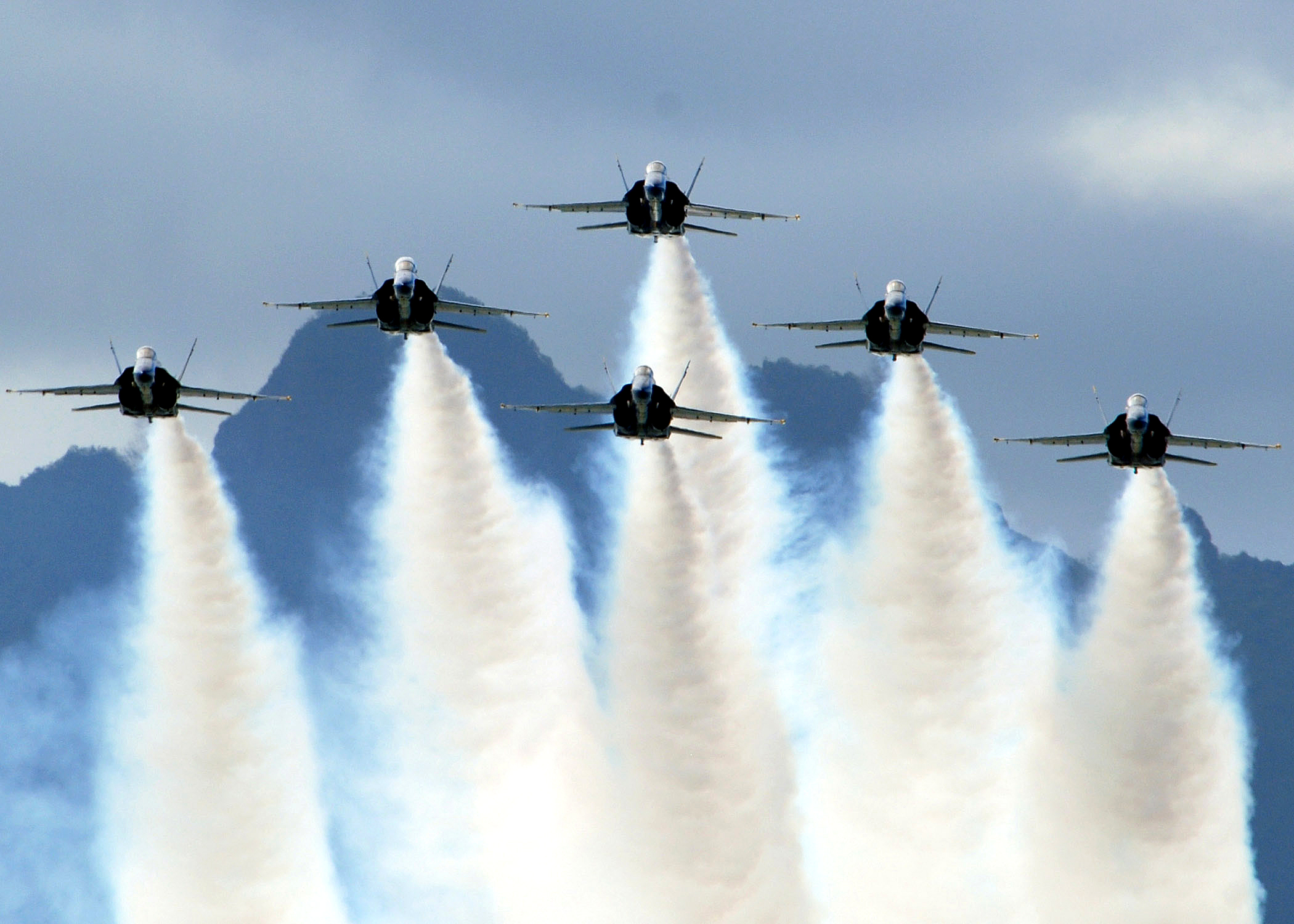 The U.S. Navy flight demonstration team, the Blue Angels, performs their delta formation during the Blues on the Bay Air Show at Marine Corps Base Hawaii on Oct. 14, 2007. The Blue Angels fly the F/A-18A Hornet aircraft and perform approximately 30 maneuvers during the aerial demonstration lasting over an hour.